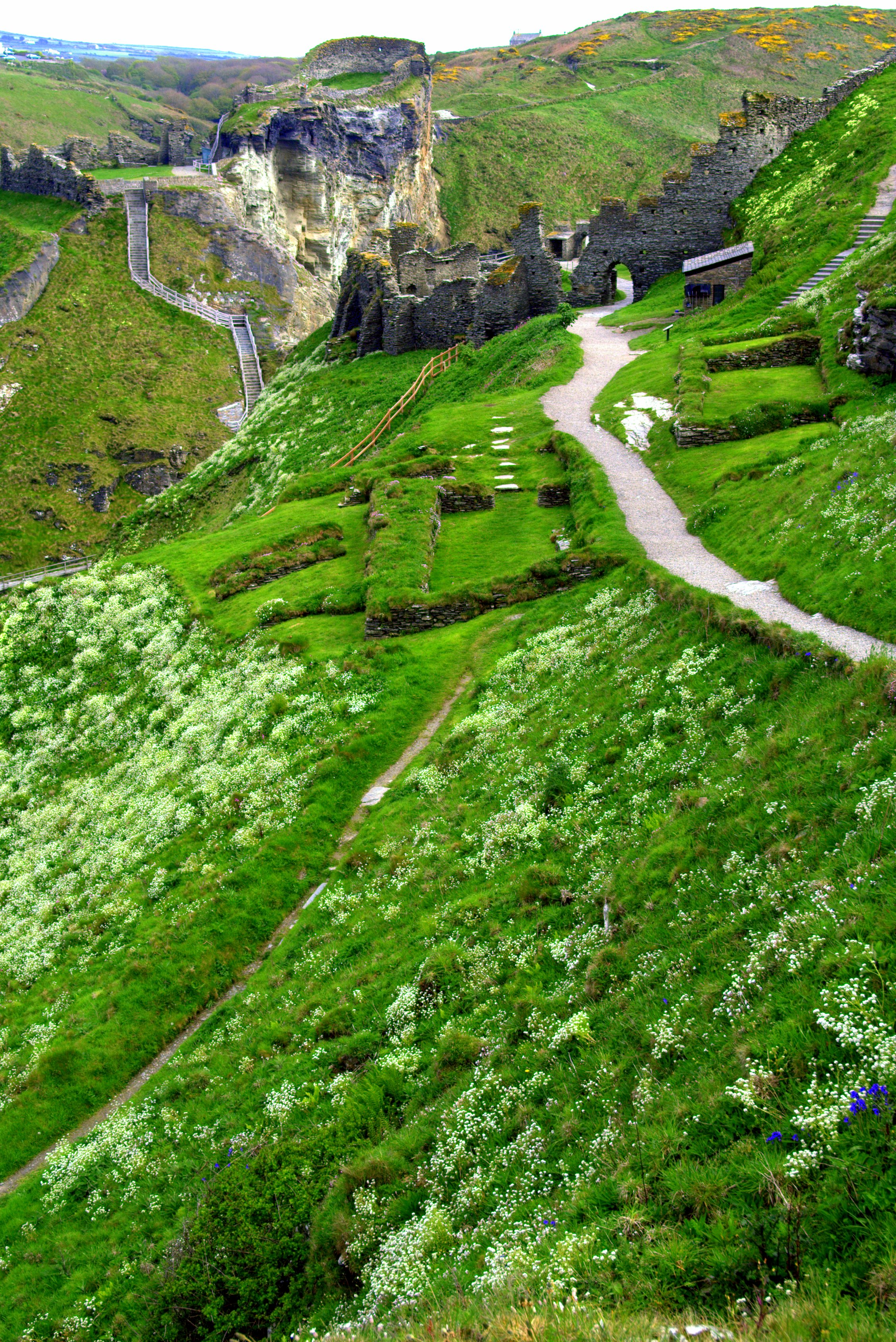 The ruins of Tintagel, in Cornwall, England. by Andrew Lih, 2006